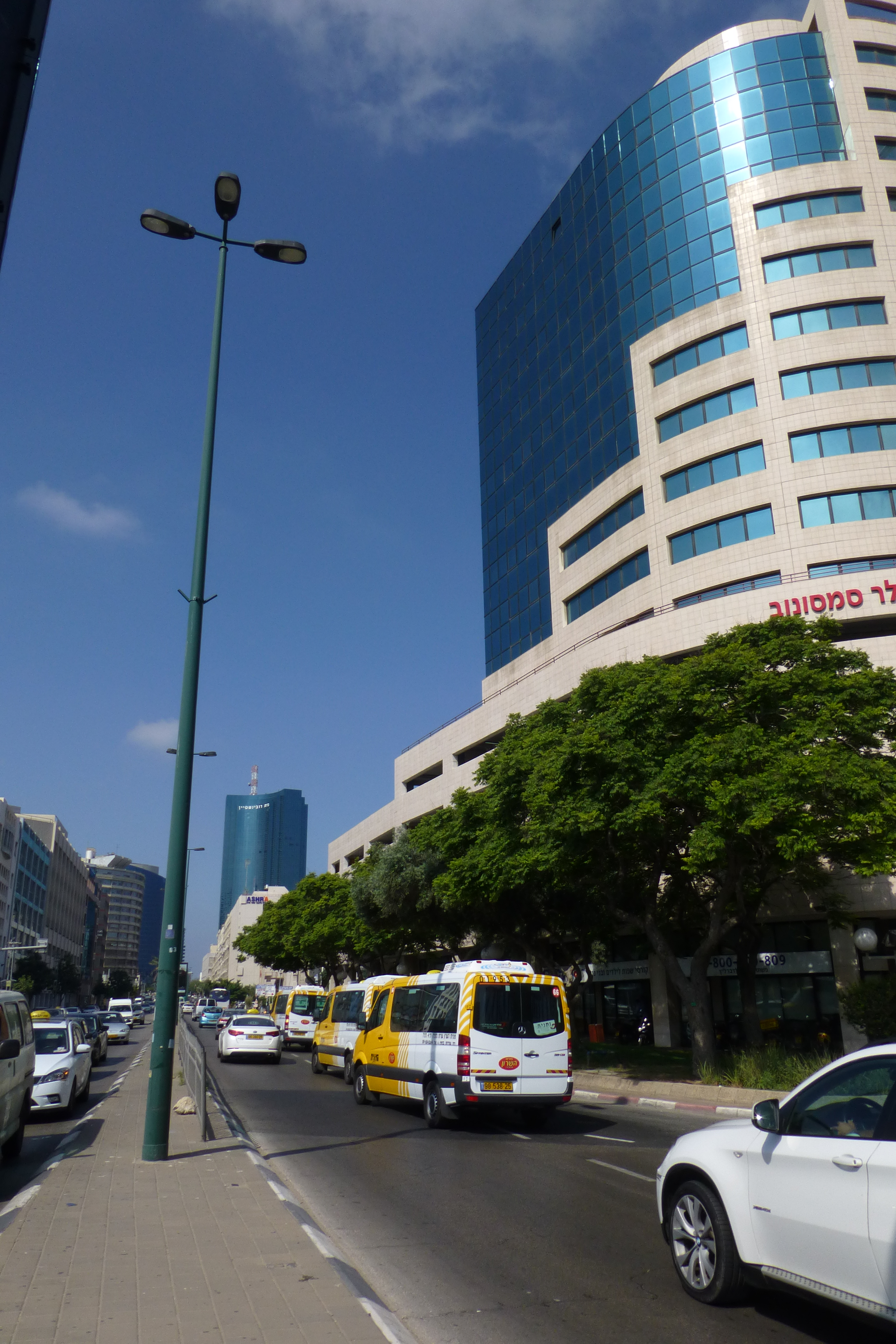 Begin Road, Tel Aviv-Yafo